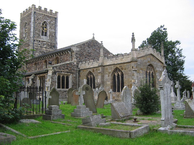 St Nicholas' parish church, Withernsea, East Riding of Yorkshire, England seen from the southeast.